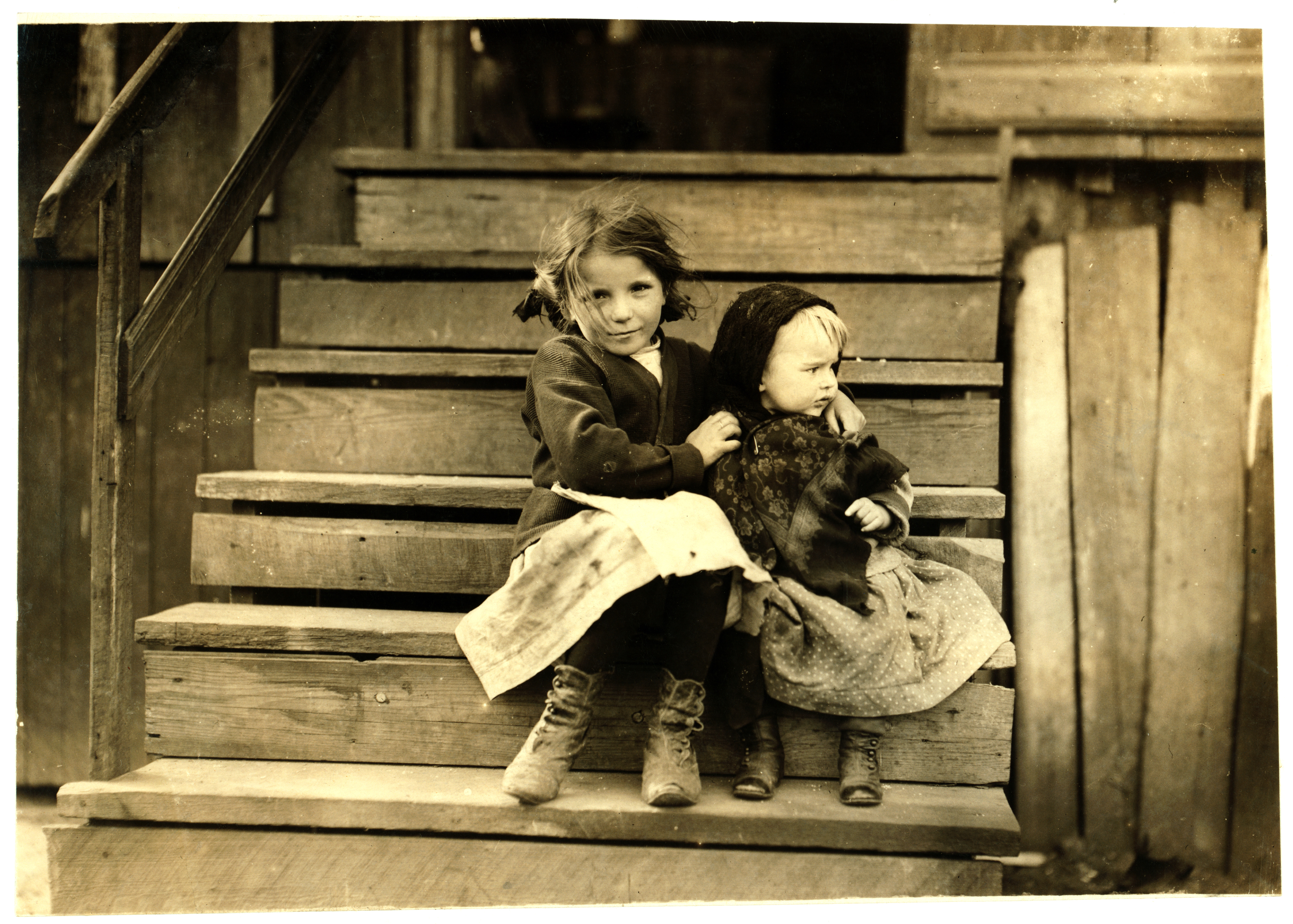 Little Julia tending the baby at home. All the older ones are at the factory. She shucks also. Alabama Canning Co.,. Location: Bayou La Batre, Alabama. Photograph by Lewis Wickes Hine, February 1911.